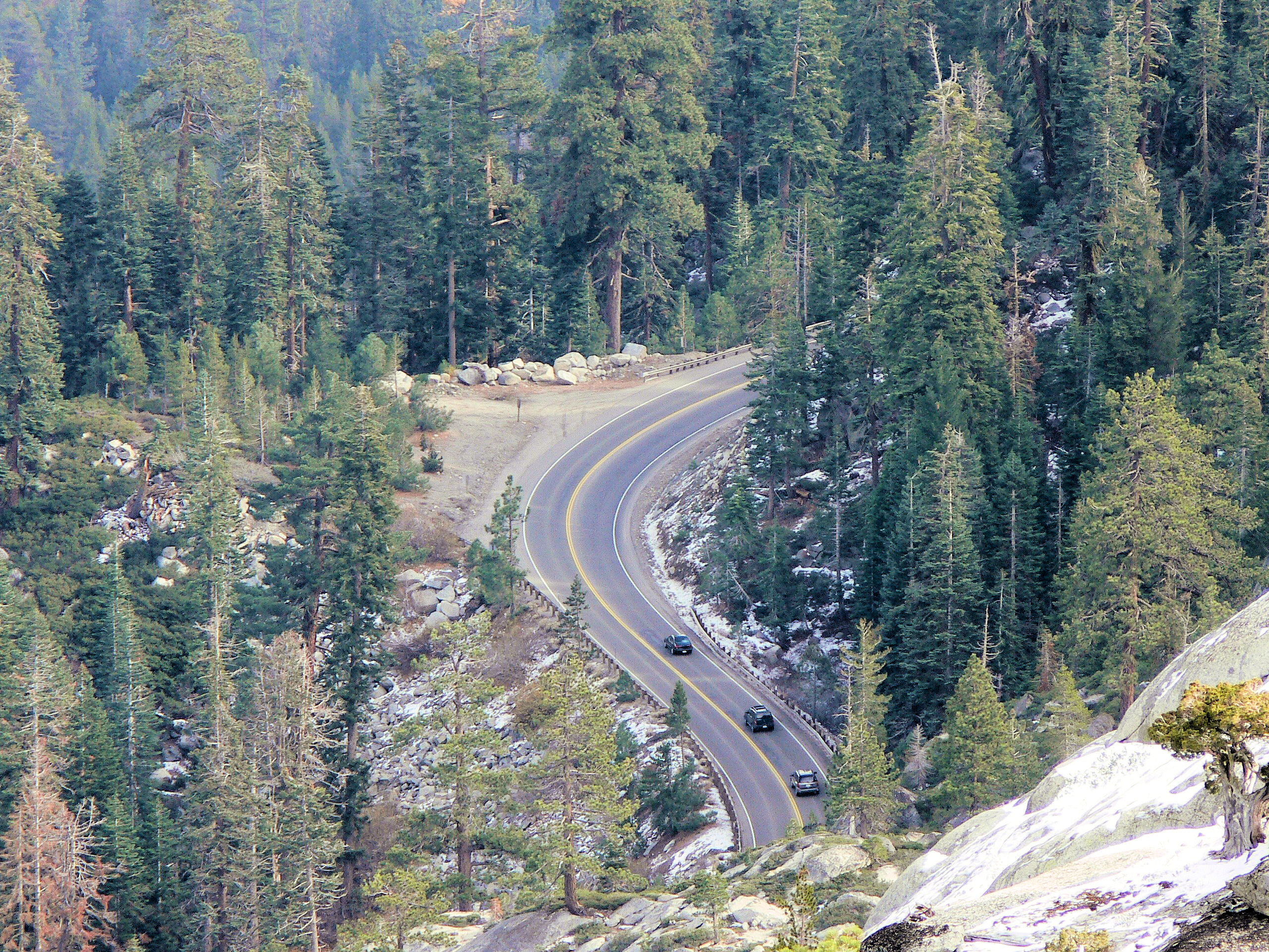 This is looking east-southeast from near the southeast end of Lower Echo Lake towards 38°50′10″N 120°02′10″W / 38.83622°N 120.03600°W. US 50 is climbing up to the summit away from the photographer. The actual summit is off to the right, about 12 curves later.